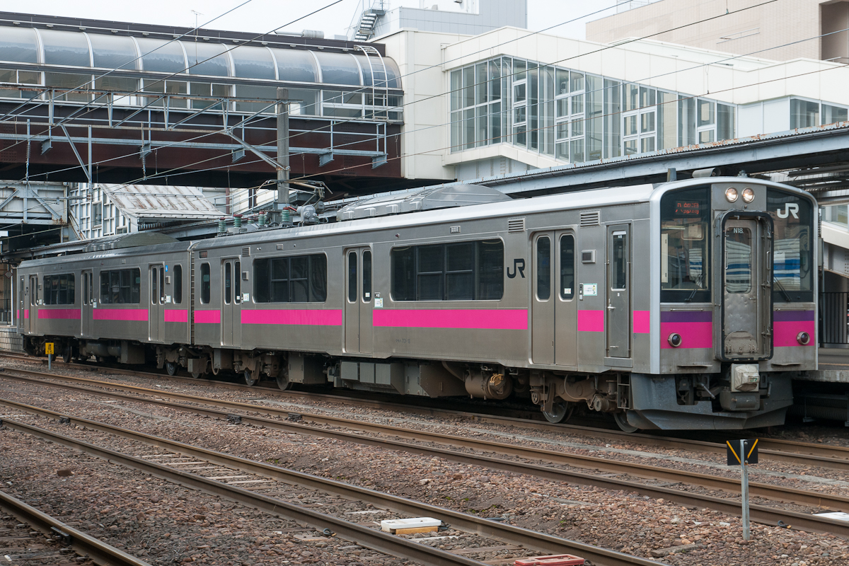 JR East 701-0 series 2-car EMU set N18 at Akita Station